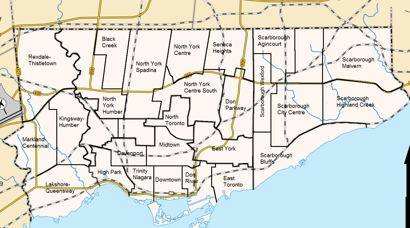 Map of Toronto